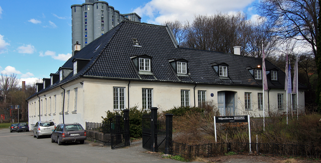 Bellona's office in Grünerløkka in central Oslo in 2008. (See also: About Bellona: Bellona Oslo).